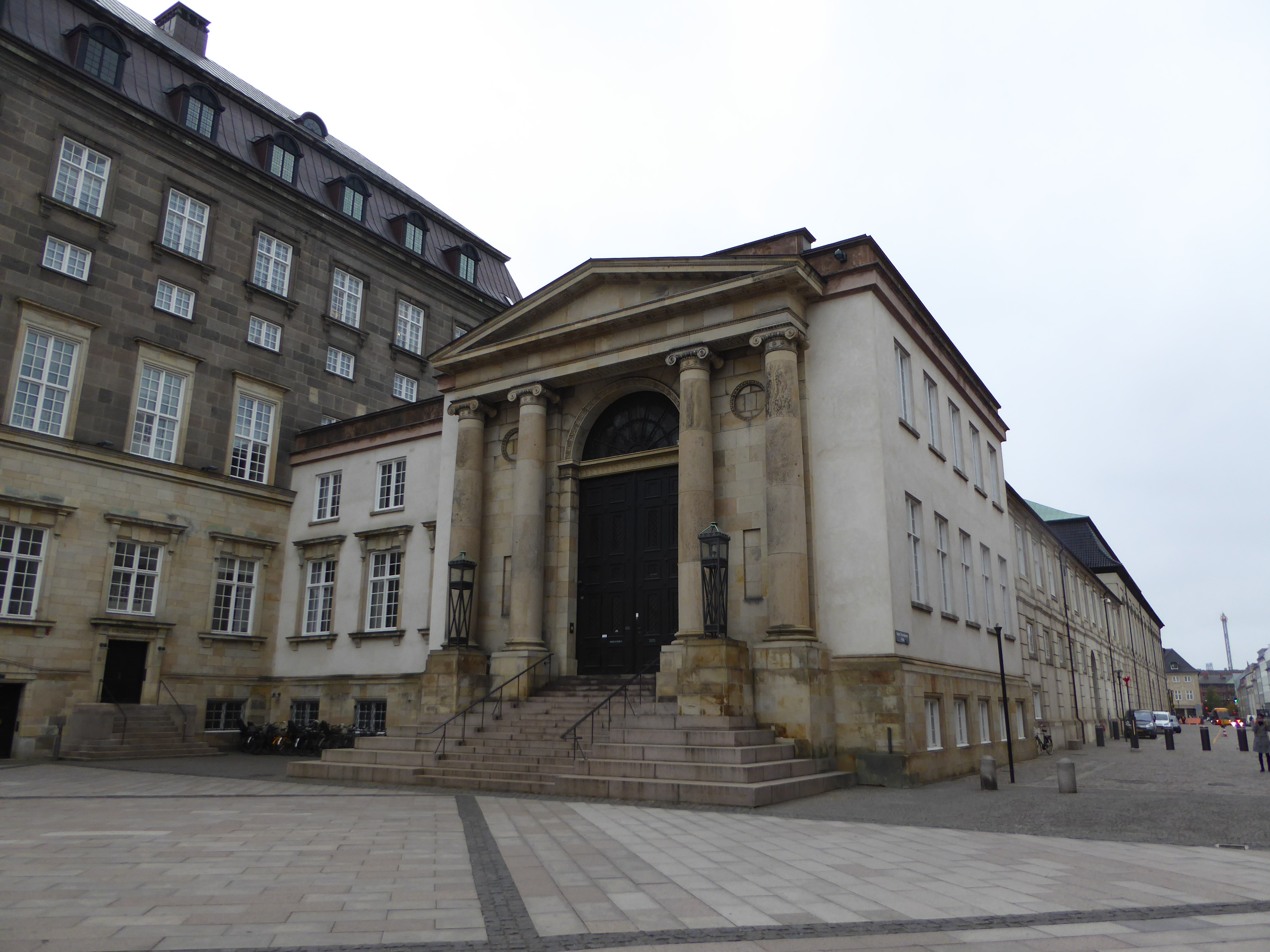 Højesteret (the Supreme Court of Denmark) at Prins Jørgens Gård on Slotsholmen in Copenhagen.